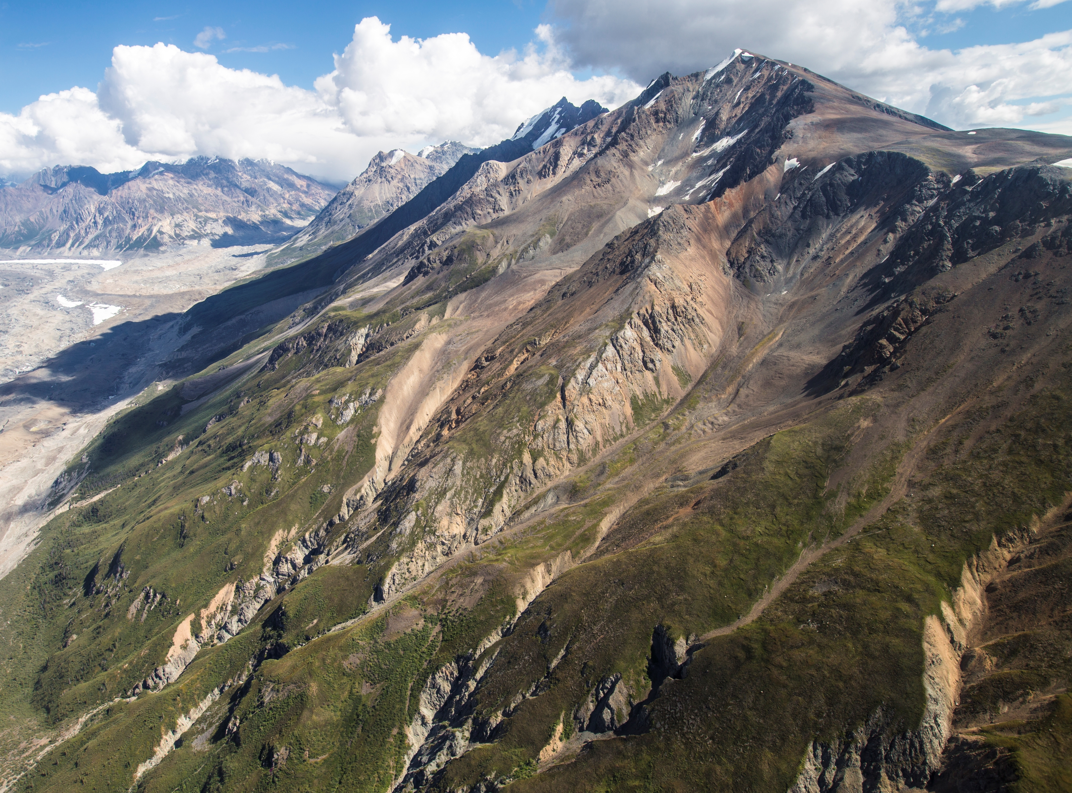 Aerial view of Mount Chitina showing west aspect.